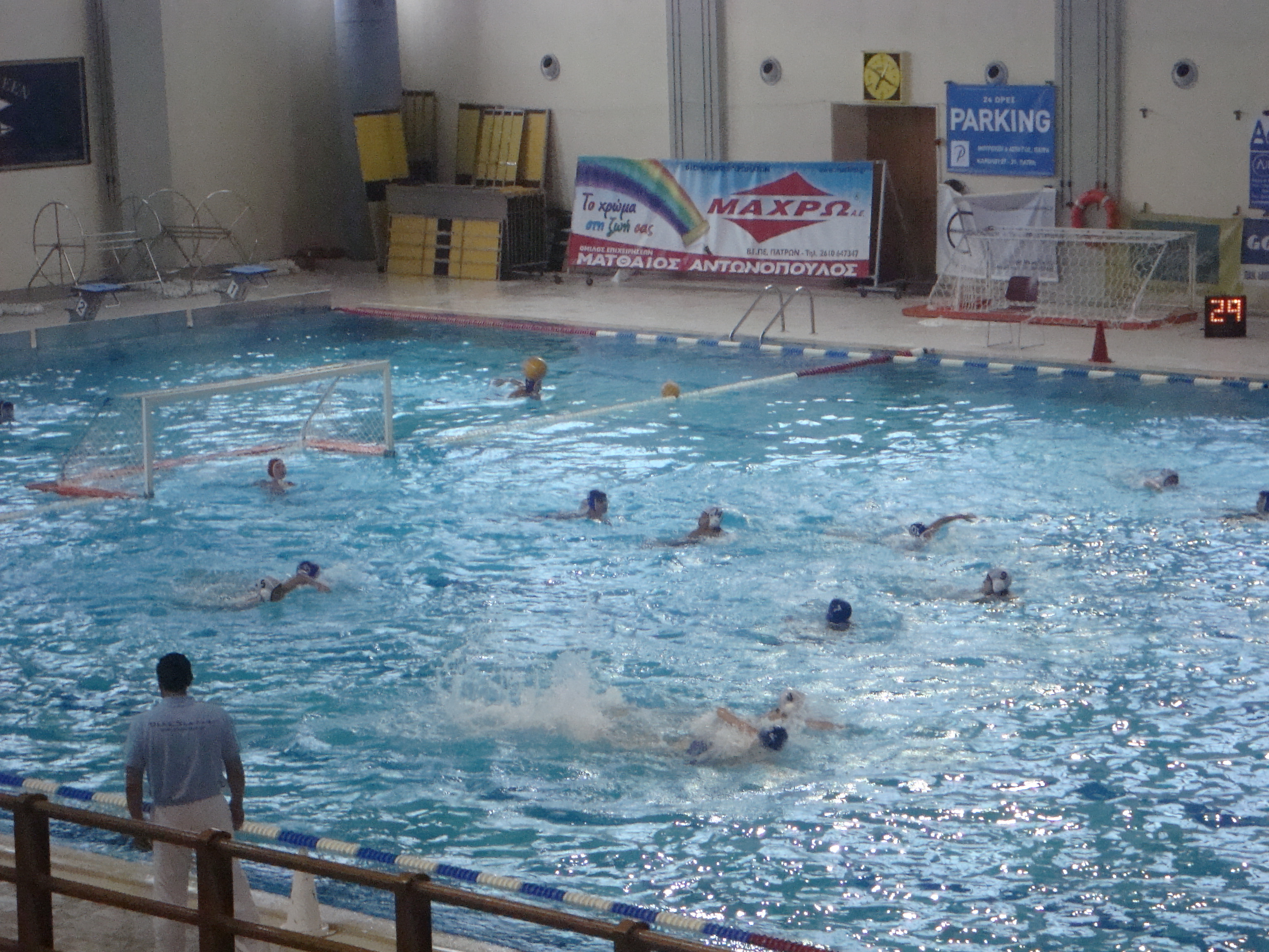 Nautical club of Patras (white) - Olympiada Petroupolis (blue) 6-4 , 2h internasional cup Water polo U12 , "Andreas Cristopoulos" .